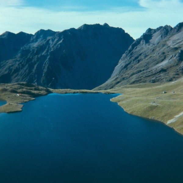 Lake Angelus, Nelson Lakes National Park, New Zealand.